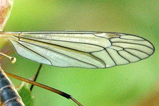 Picture taken in Commanster, Belgian High Ardennes . Species: Nephrotoma appendiculata, wing detail